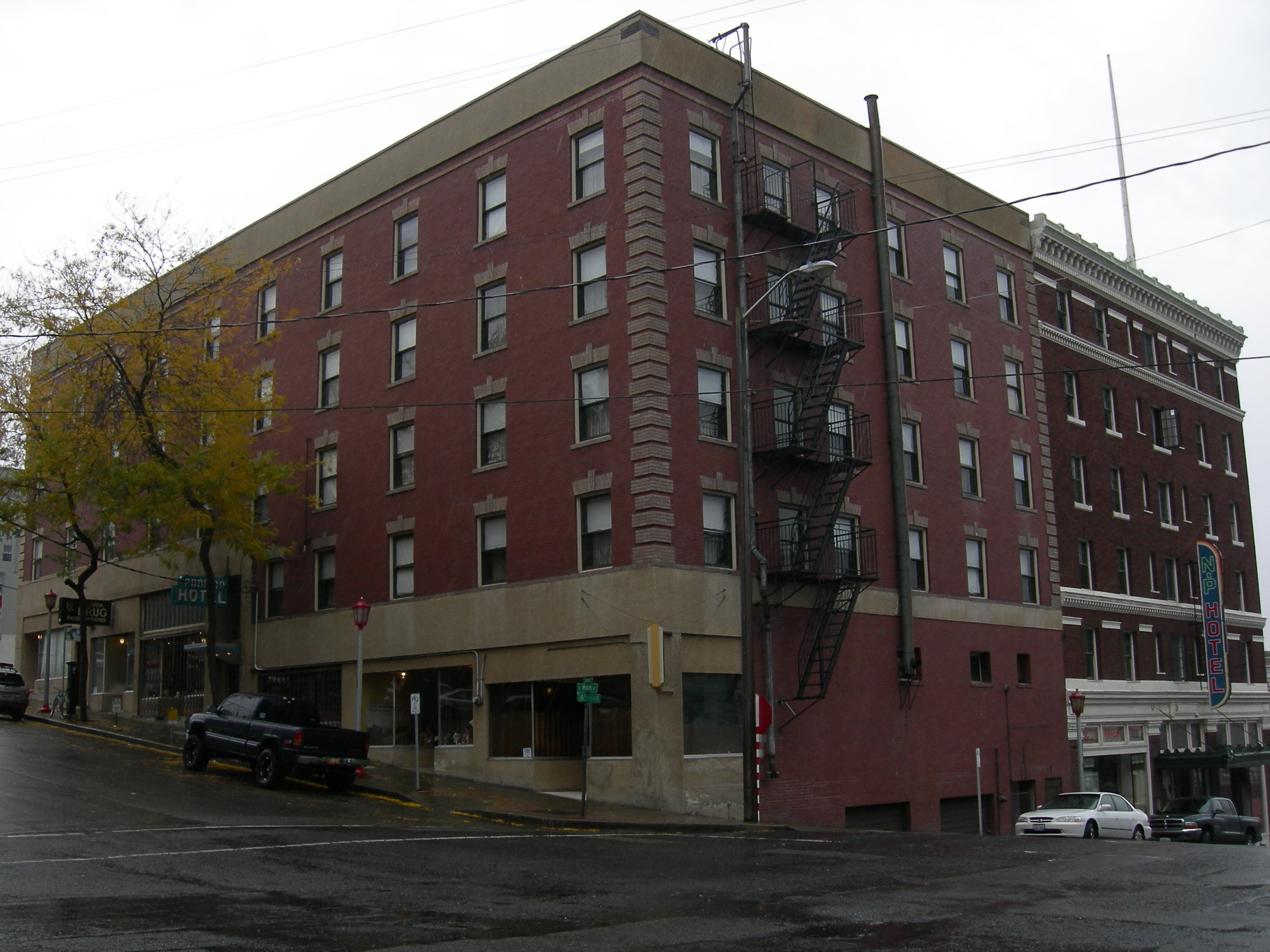 The Panama and NP Hotels, International District, Seattle, Washington. The Panama Hotel is listed on the National Register of Historic Places, ID #06000462. The Panama Hotel is still a hotel, the NP Hotel is now an apartment house.